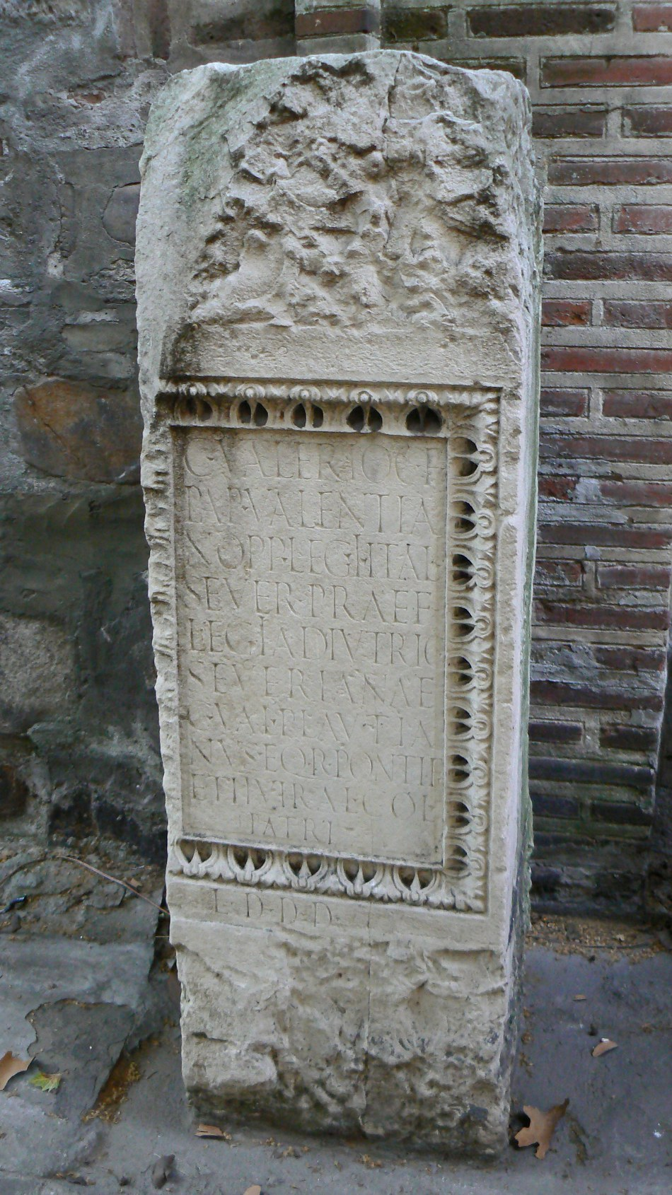 An exhibit in the Lapidarium in front of the National Archeological Museum in Sofia, Bulgaria